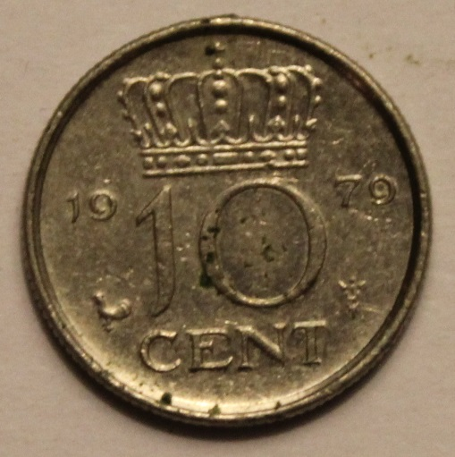 This is the reverse face of a 10 cent Dutch guilder coin minted in 1979.